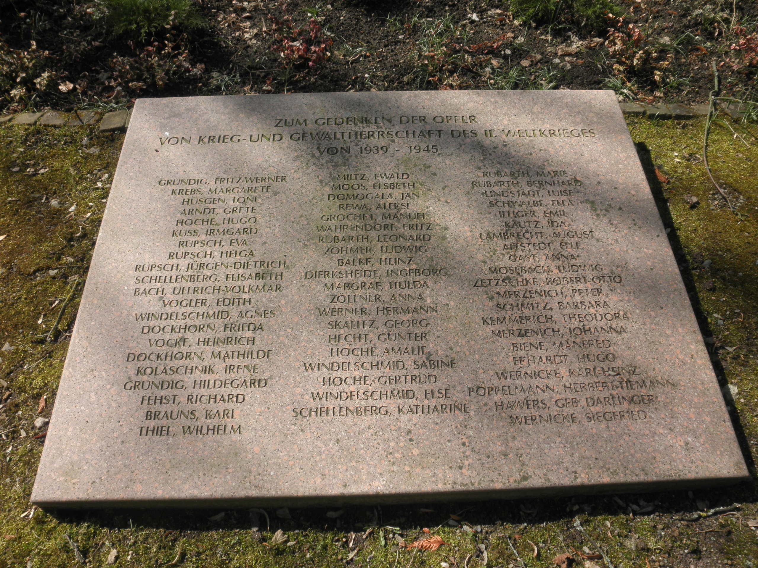 Bombing Victims in Sangerhausen 1945